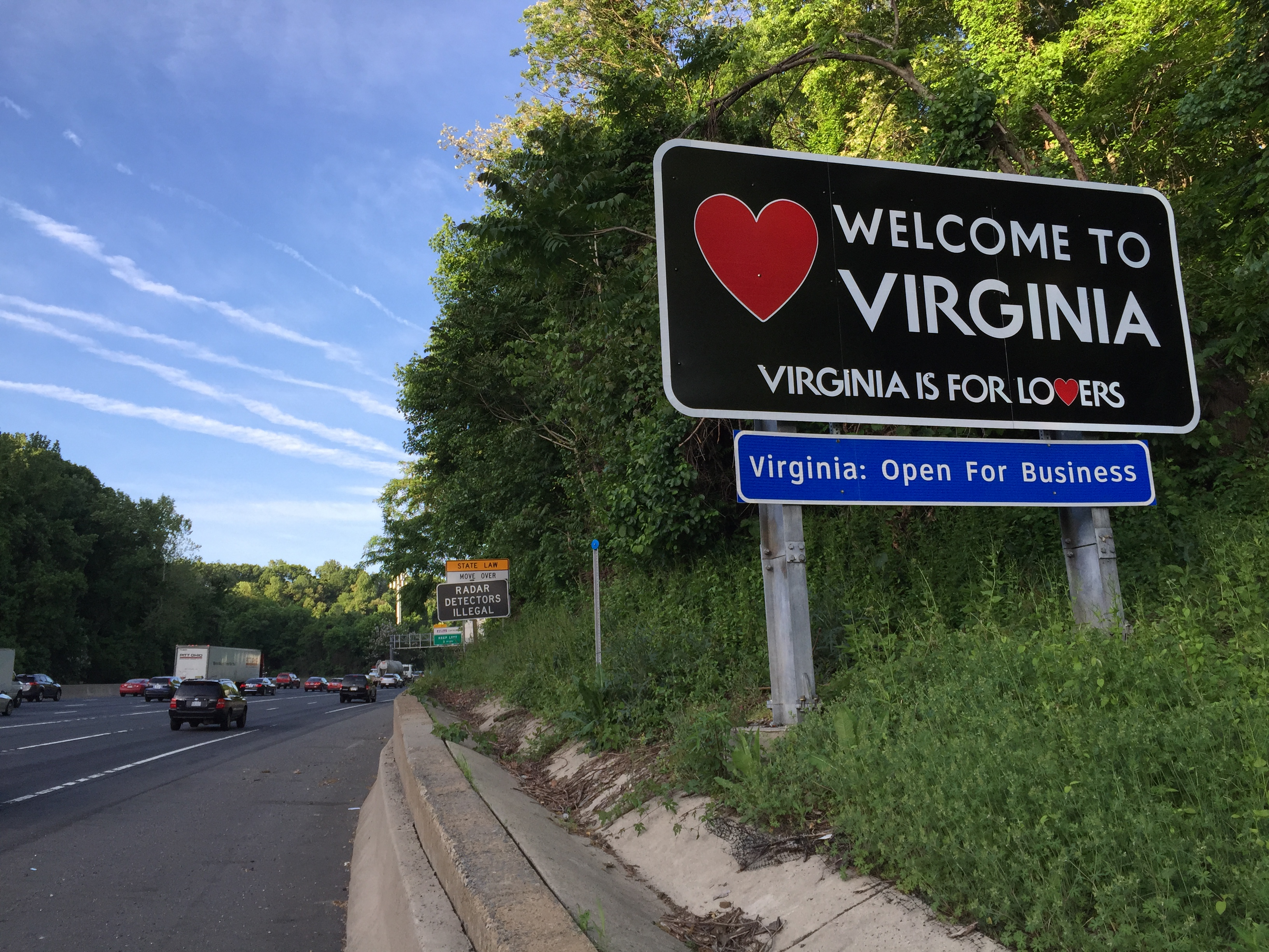 Welcome to Virginia sign on southbound Interstate 495 (Capital Beltway) in McLean, Virginia